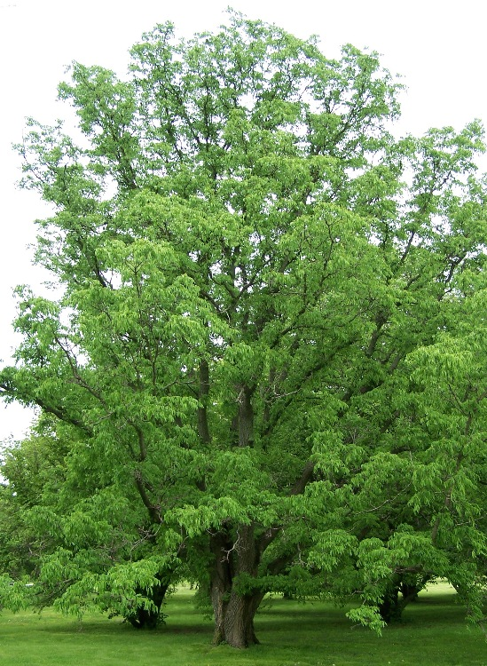 Amur Cork Tree Phellodendron amurense Rupr. Morton Arboretum acc. 568-27*3